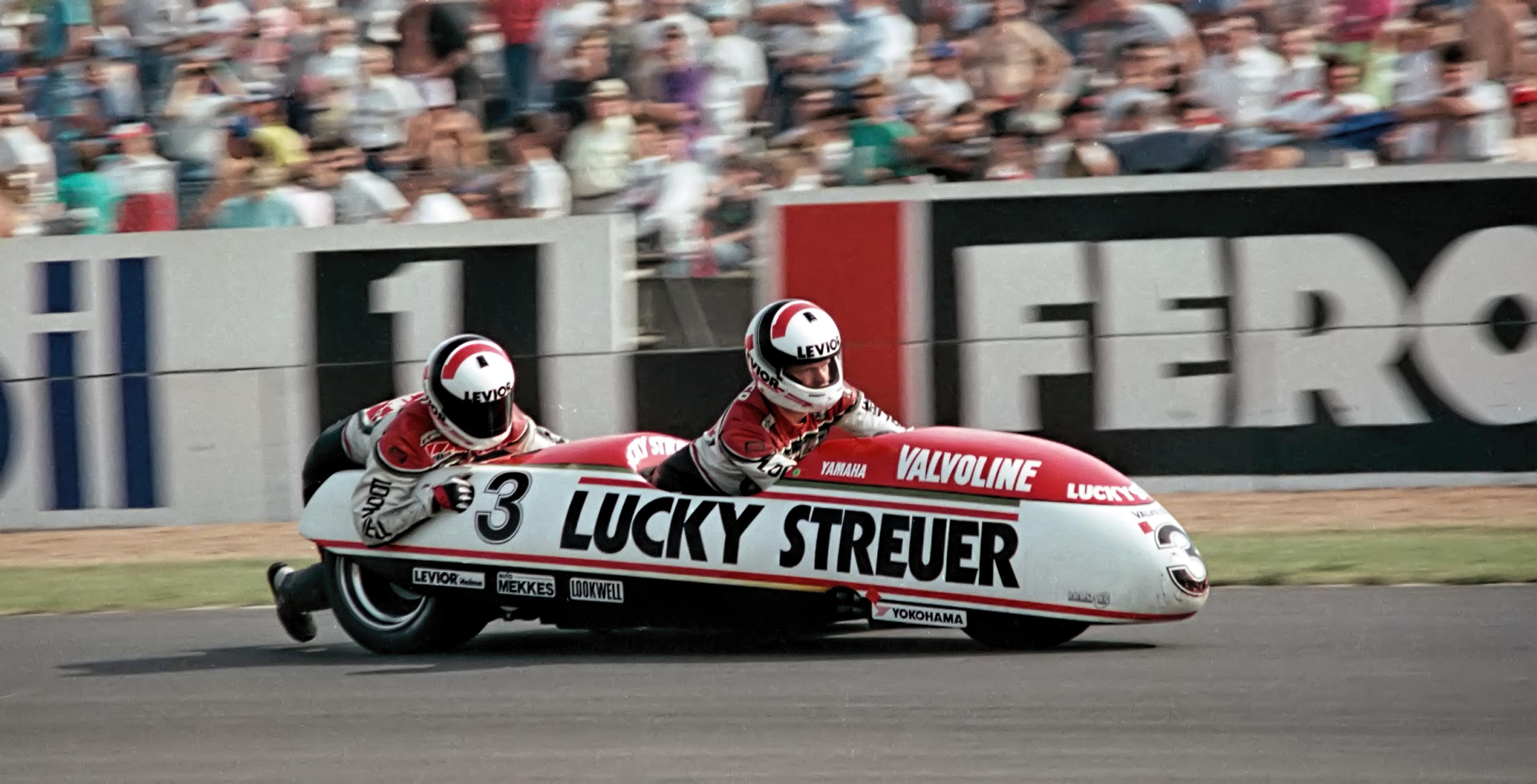 The LCR Yamaha Sidecar, ridden by Egbert Streuer and Gerald de Haas at the 1989 British Grand Prix